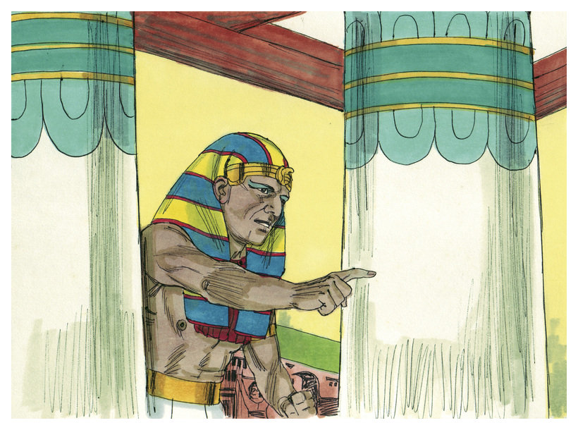 Biblical illustration of Book of Exodus Chapter 11